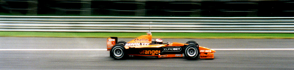 Jos Verstappen testing for Arrows Grand Prix at Monza in 2000.